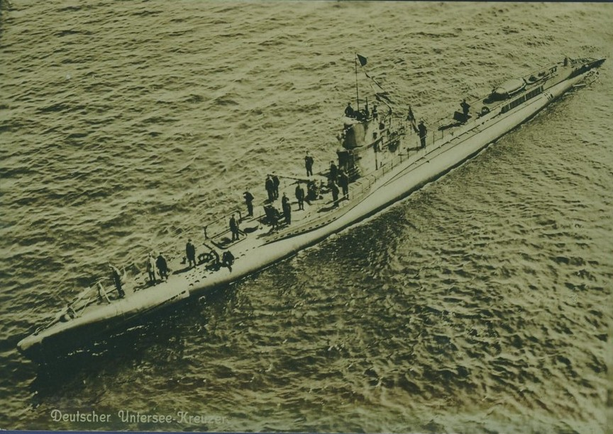 German UB-III-class-submarine (World War One) SM UB 64